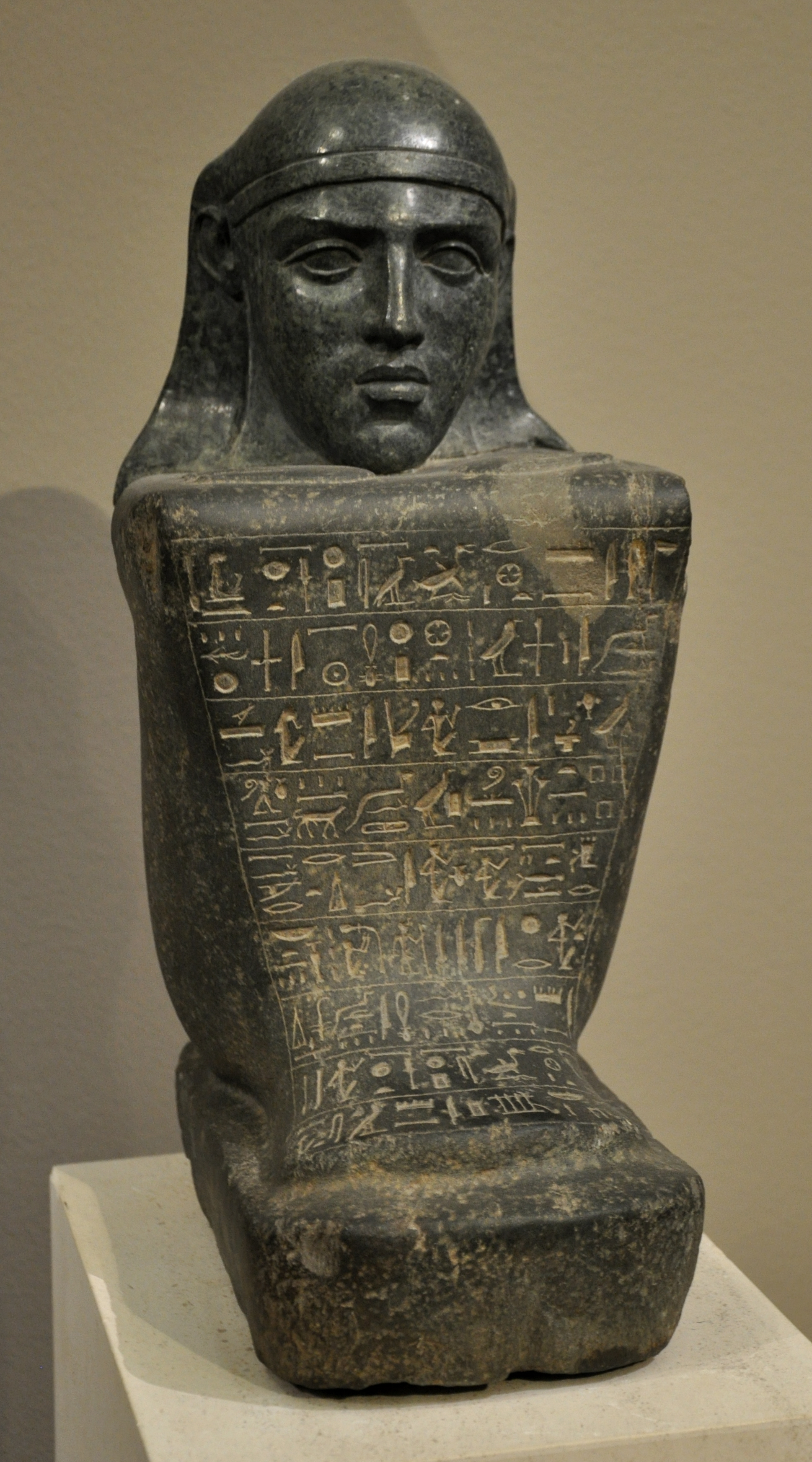 Block statue of the Vizier Na-secheper-en-Sachmet; Egypt, Sais, 26h dynasty, 664-610 BC; greywacke (head: modern); Museum: Liebieghaus, Frankfurt am Main, Inv. No. 1449